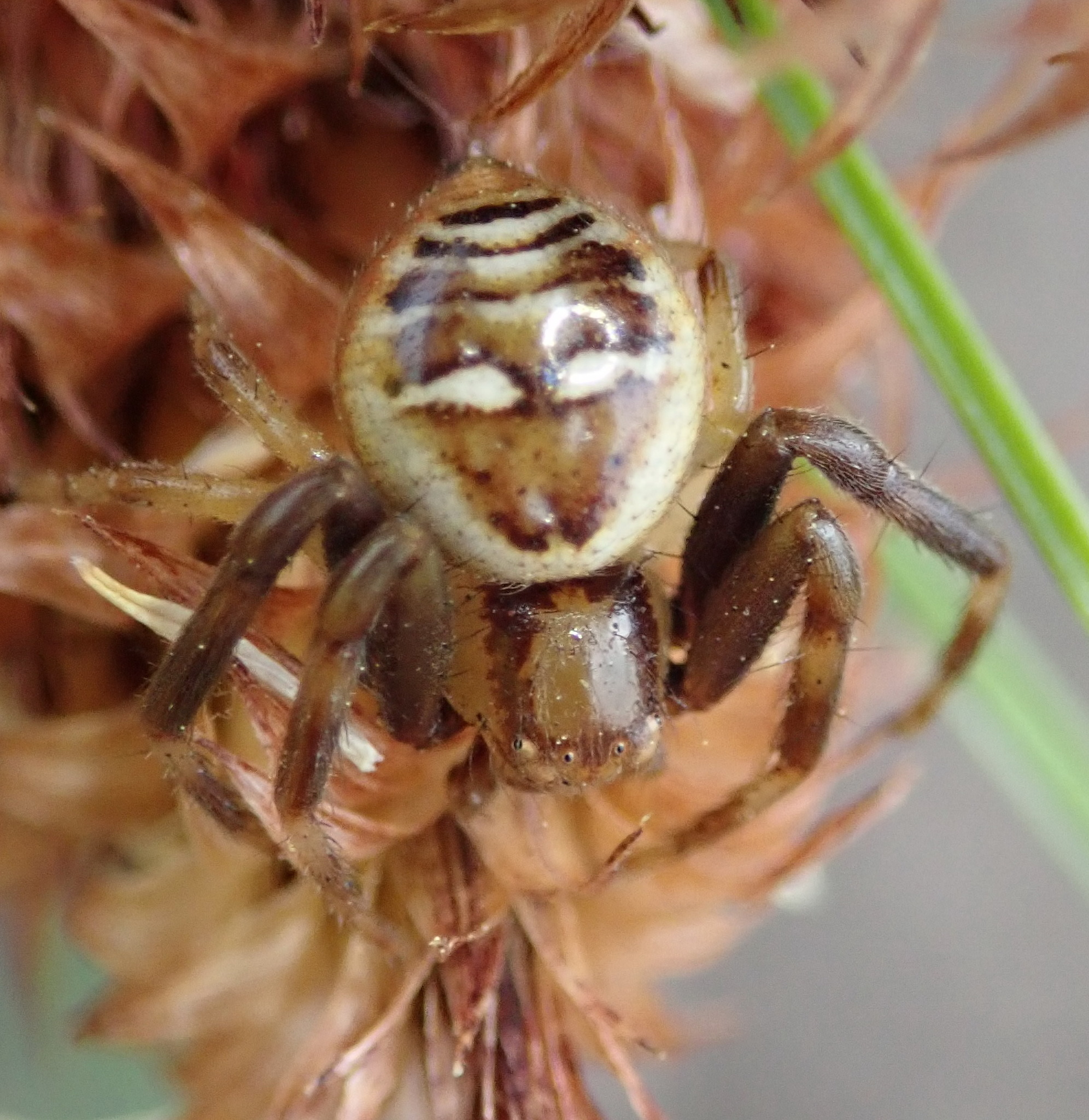 A crab spider species, Synema marlothi, on the sedge species Ficinia nigrescens, photographed by Nicola van Berkel, on 15 June 2018, at Ruigtevlei Plantations, Knysna County, Western Cape province of South Africa